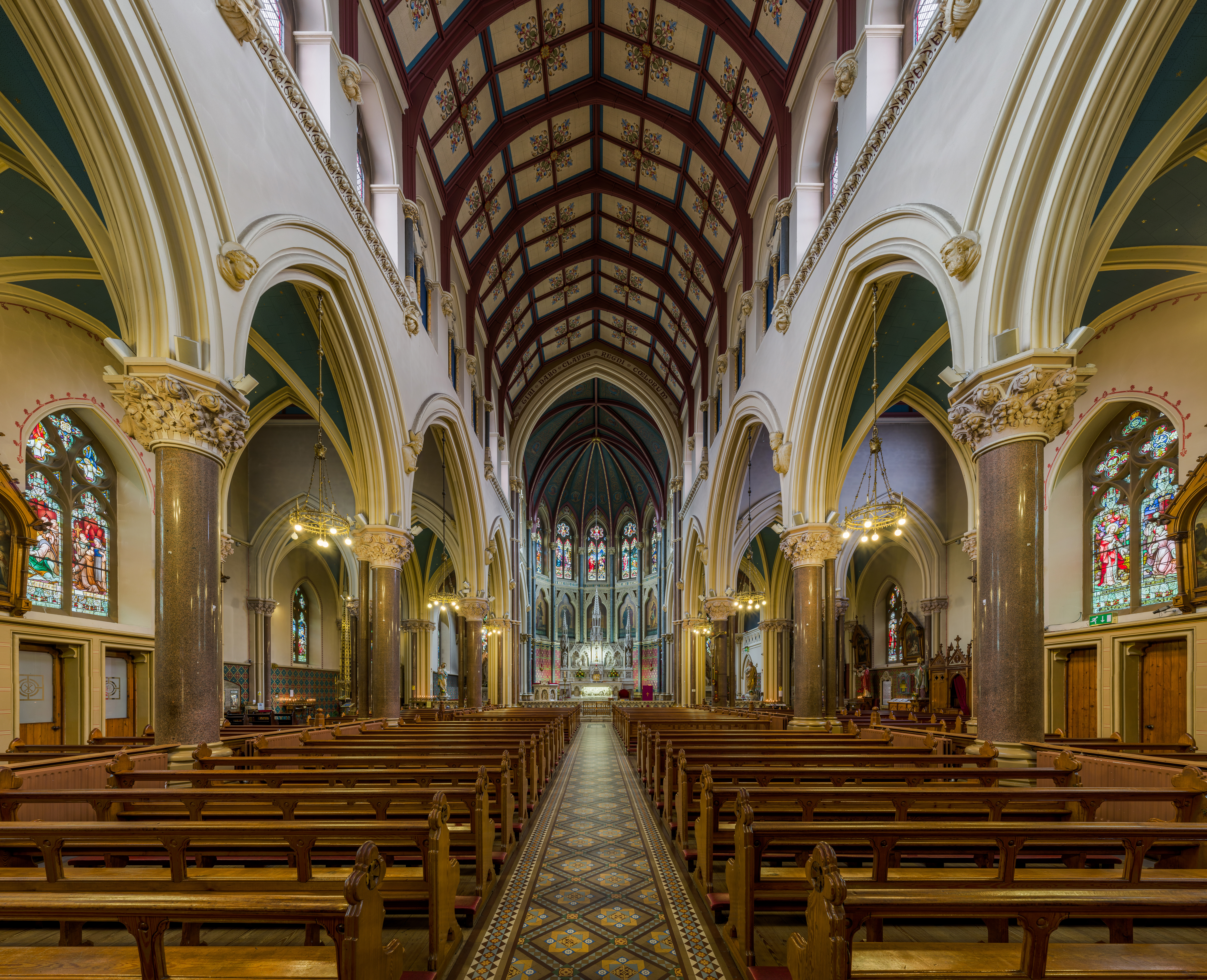 The nave of St Peter's Church in Drogheda, Ireland, looking north towards the altar.